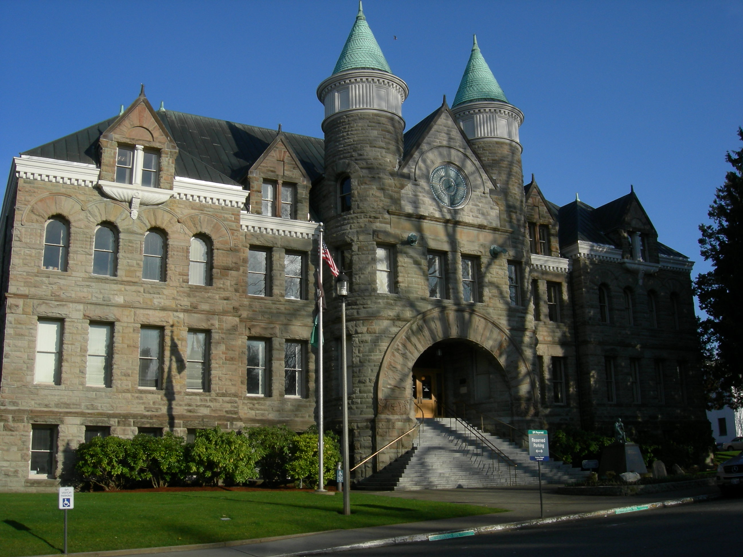 HQ of the Washington State Superintendent of Public Instruction, downtown Olympia, Washington, seen from Sylvester Park. Designed by Willis A. Ritchie and built 1890–1892 as the Thurston County Courthouse, it served 1905–1928 as the state capitol building. A fire in 1928 resulted in the loss of a central tower. (Source for this info: Jeffrey Karl Oschsner, Shaping Seattle Architecture, University of Washington Press (1994, revised 1998). ISBN 0-295-97366-8. p. 44)